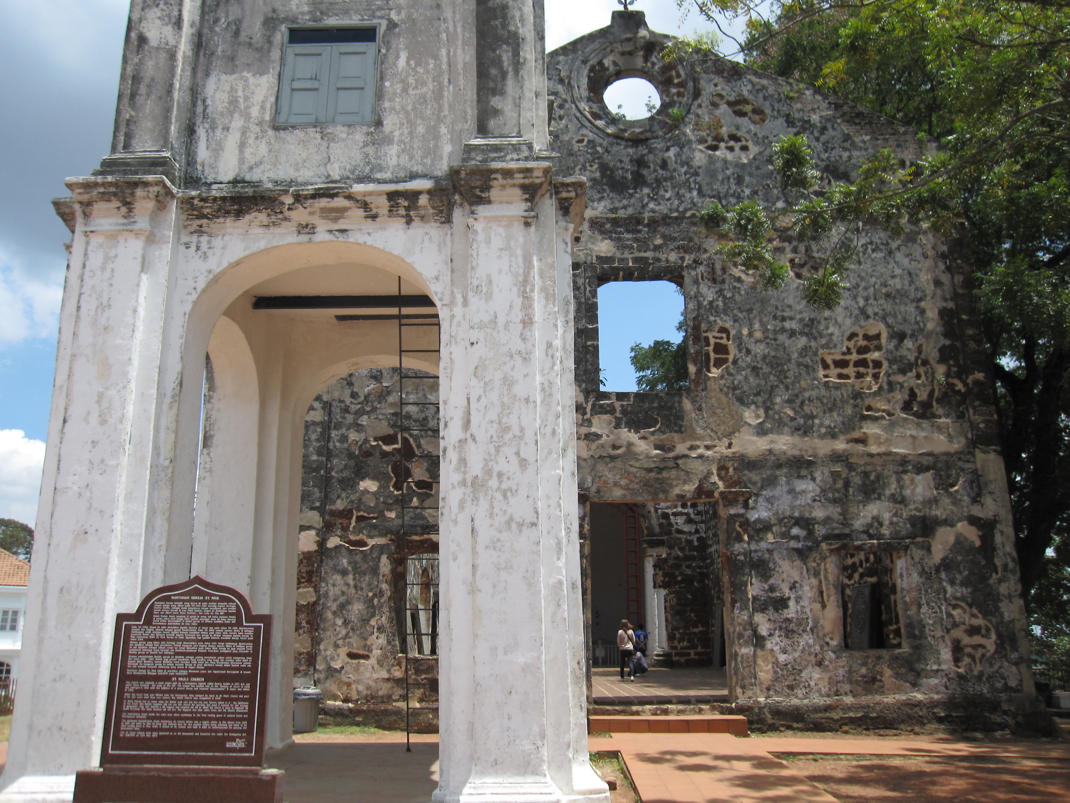 St Paul Church, Melaka